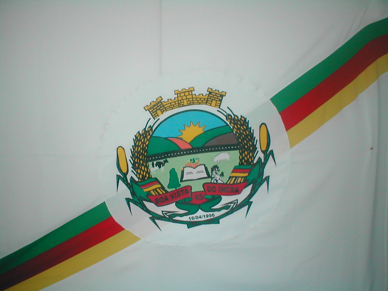 Flag of Boa Vista do Incra - RS - Brazil.